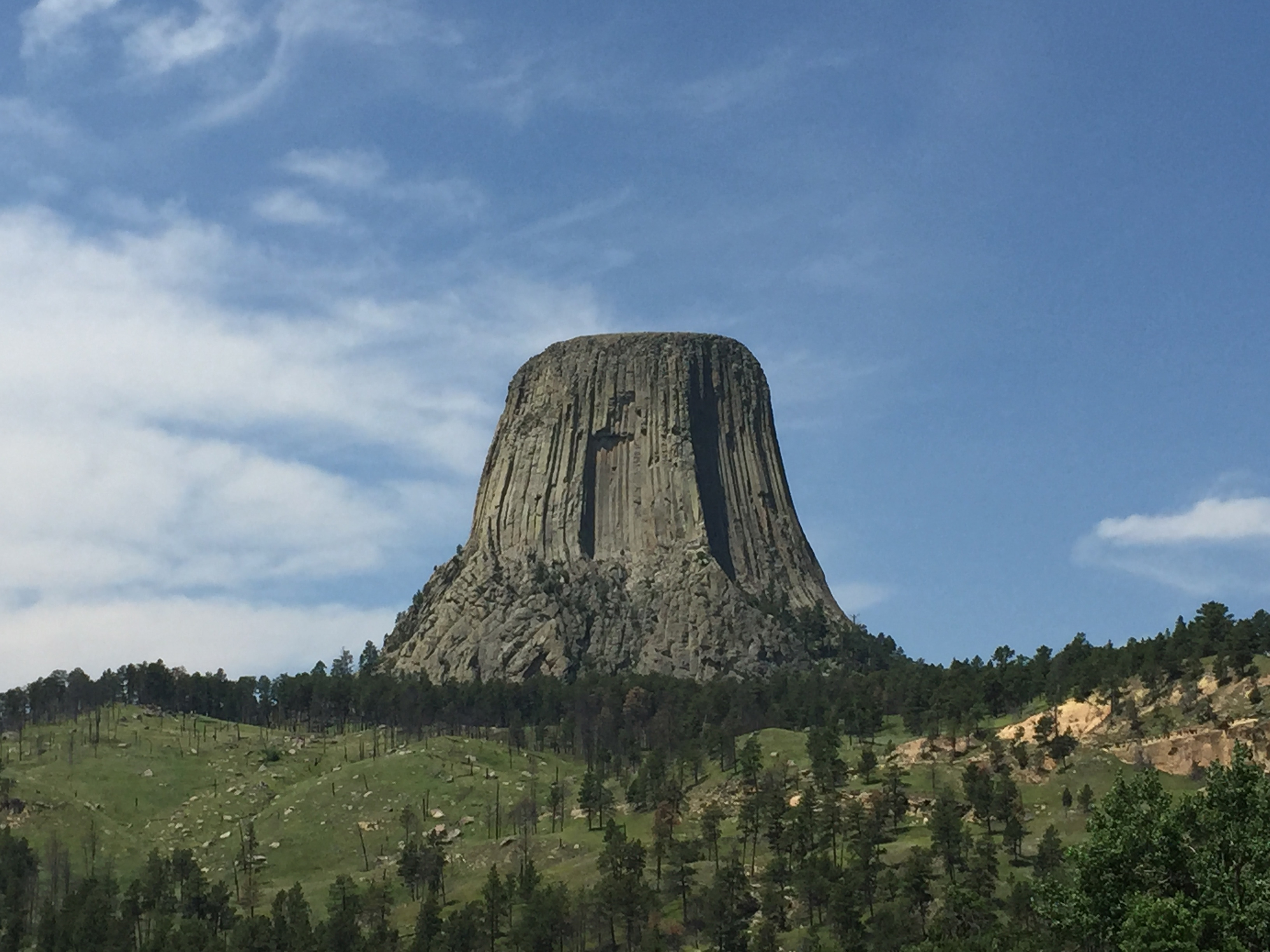 "This means something. This is important." — If you're familiar with that famous movie line from "Close Encounters of the Third Kind" then you'll remember Richard Dreyfus carving a vision of something out of mashed potatoes. The vision, of course, was Devils Tower. While this isn't a shot of a well-sculpted potato heap, it's definitely the real Devils Tower in Wyoming. Devils Tower is an eroded laccolith in the Black Hills of Wyoming. A laccolith forms when molten magma forces its way into a rock formation, then cools and hardens. As the surrounding rock erodes away over time, the hardened former magma remains. The streaked surface of Devils Tower reflects the polygonal shaped fractures (columnar joints) that formed as magma contracted as it cooled and hardened. Devils Tower rises 1,267 feet above the nearby Belle Fourche River and according to the National Park Service, the summit is roughly the size of a football field. Photo credit: Alex Demas, USGS. You can learn more about Devils Tower National Monument at